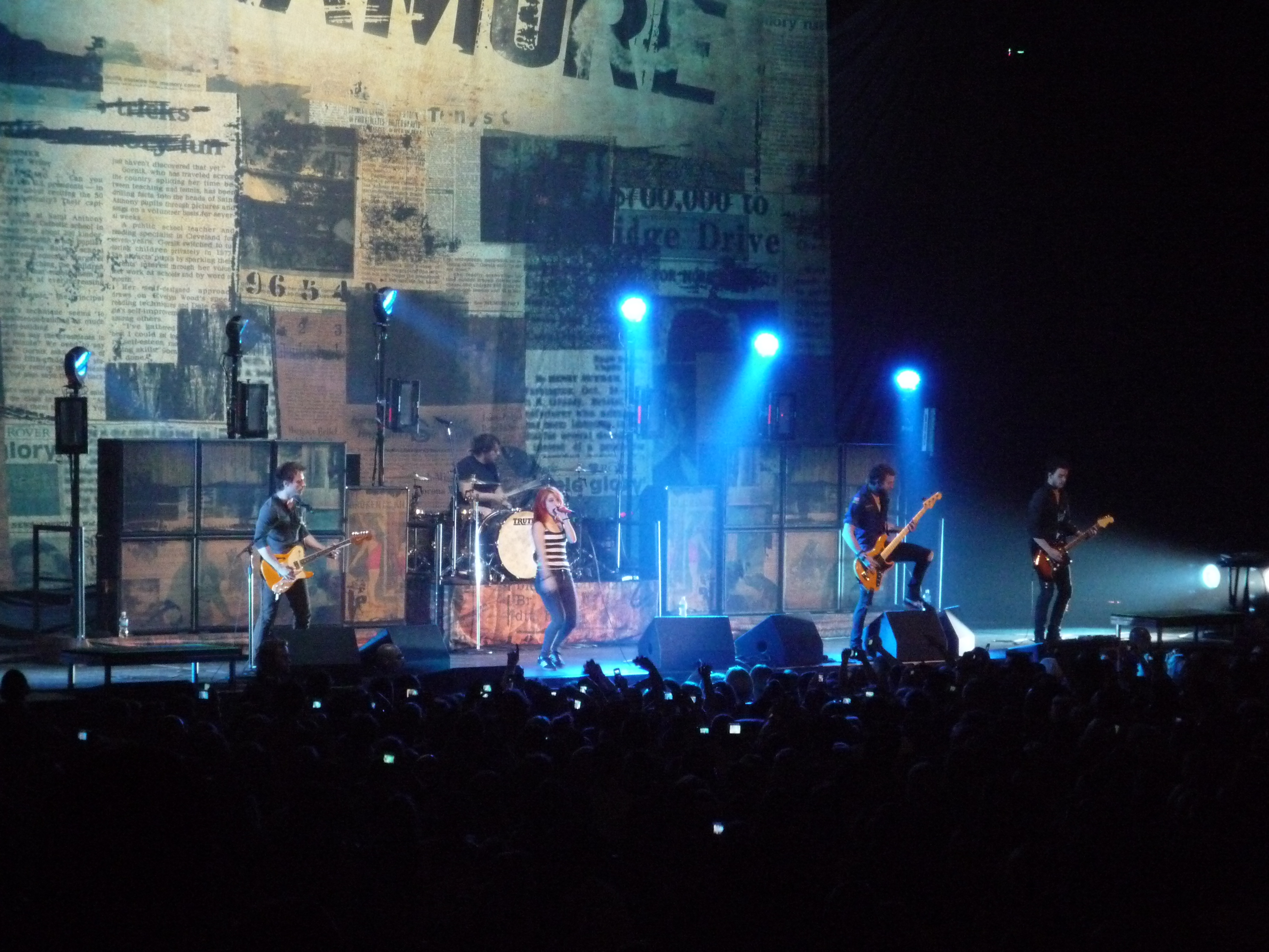 Paramore opening of the show No Doubt in General Motors Place.